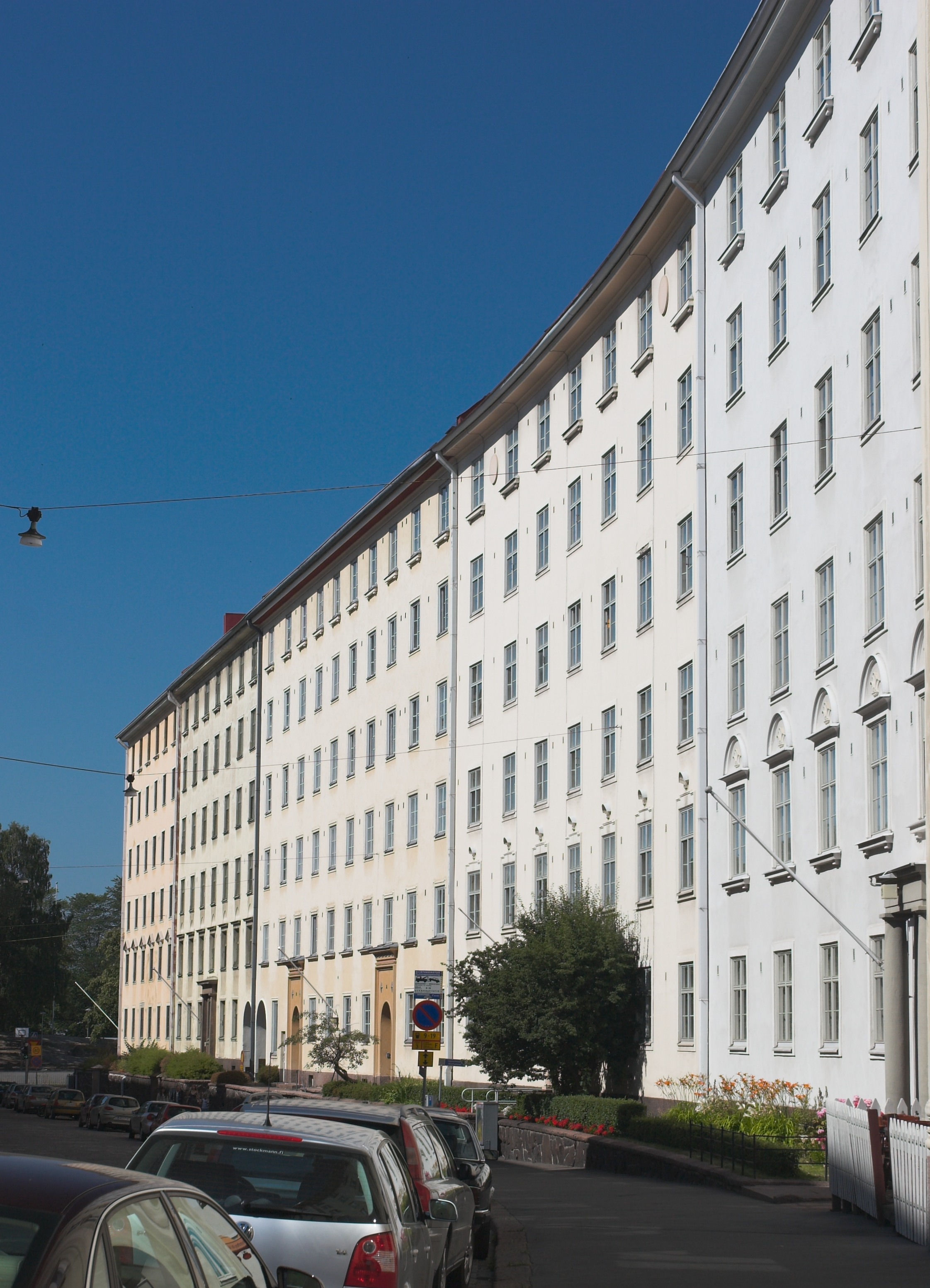 Museokatu street in Etu-Töölö, central Helsinki, Finland.